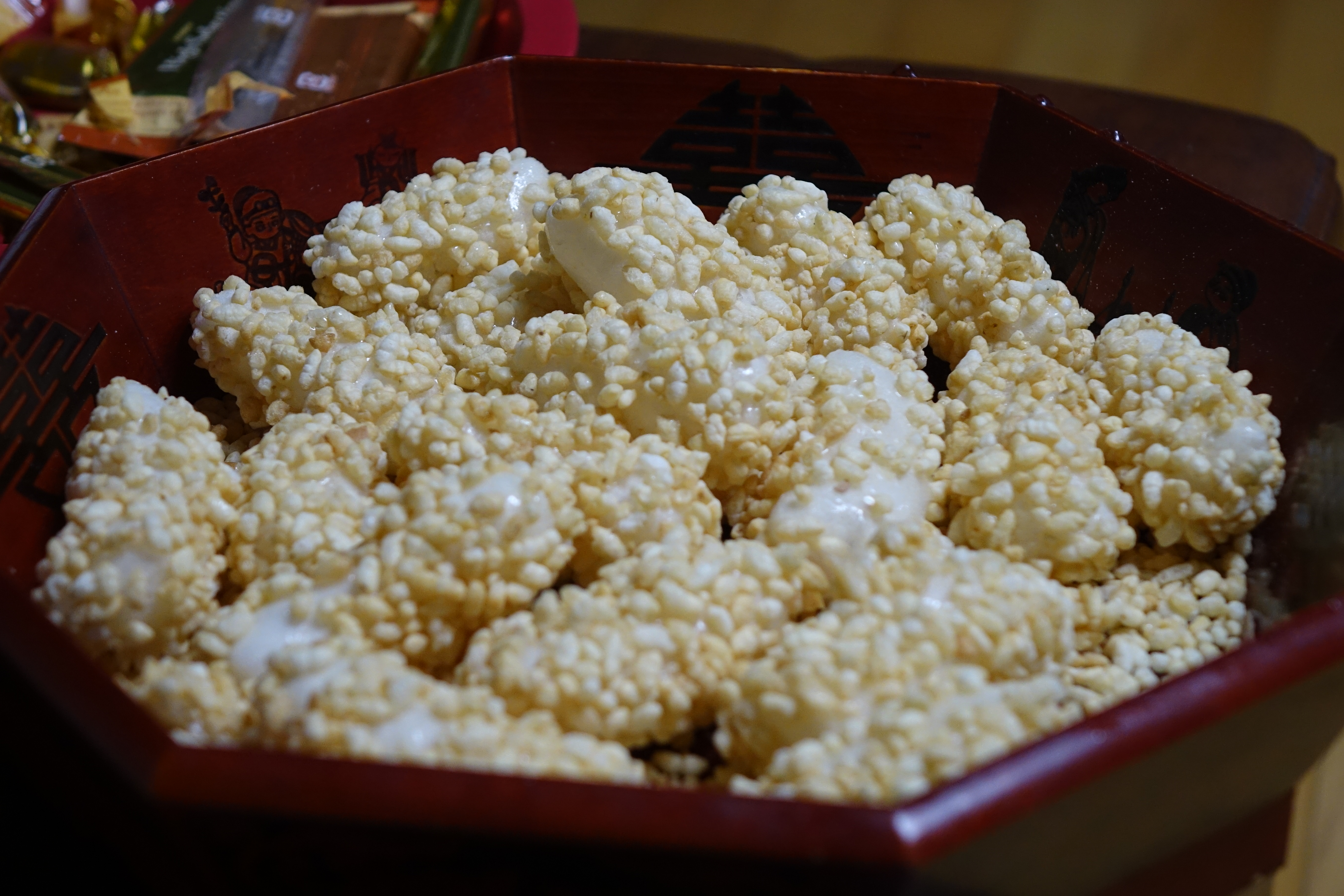 Gangjeong, a type of yugwa (deep-fried hangwa made with glutinous rice flour)